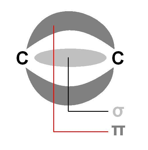 An image of a double bond between two carbon atoms